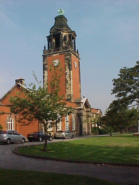 Liverpool Blue Coat School, front entrance and clock tower are shown.